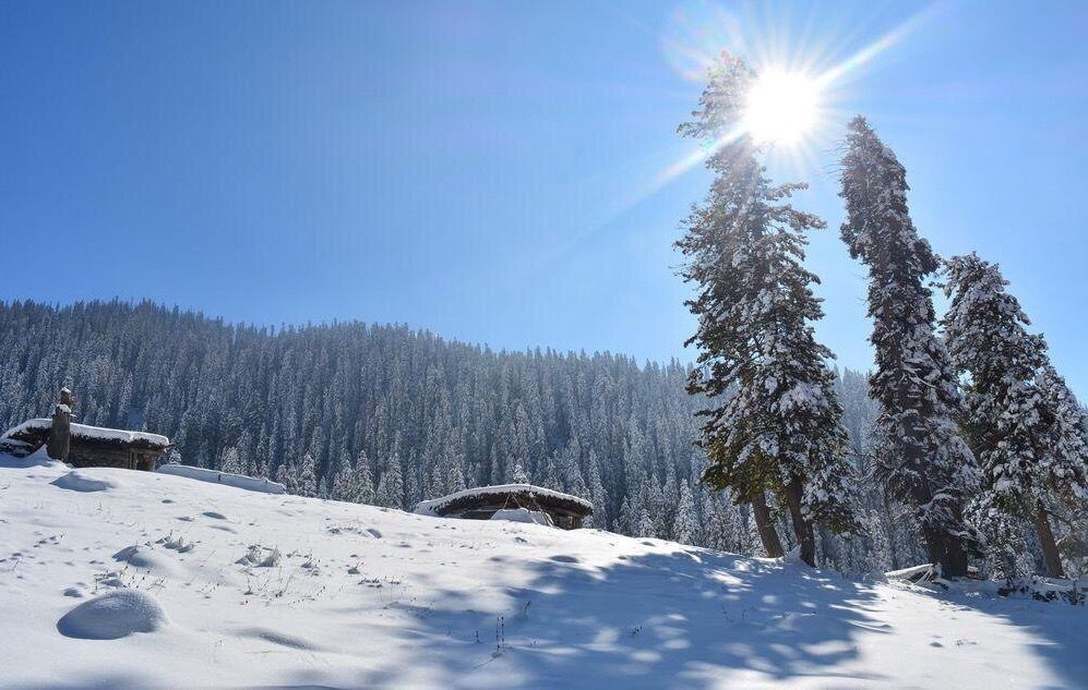 Way to the Tulian lake, winter of 2015